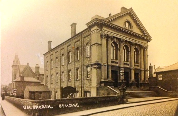 United Methodist Free Church was built in Spring Gardens on the site of a smaller Chapel in 1876-79 and stood until the reorganization of Methodism in Spalding in 1955 when it was demolished.